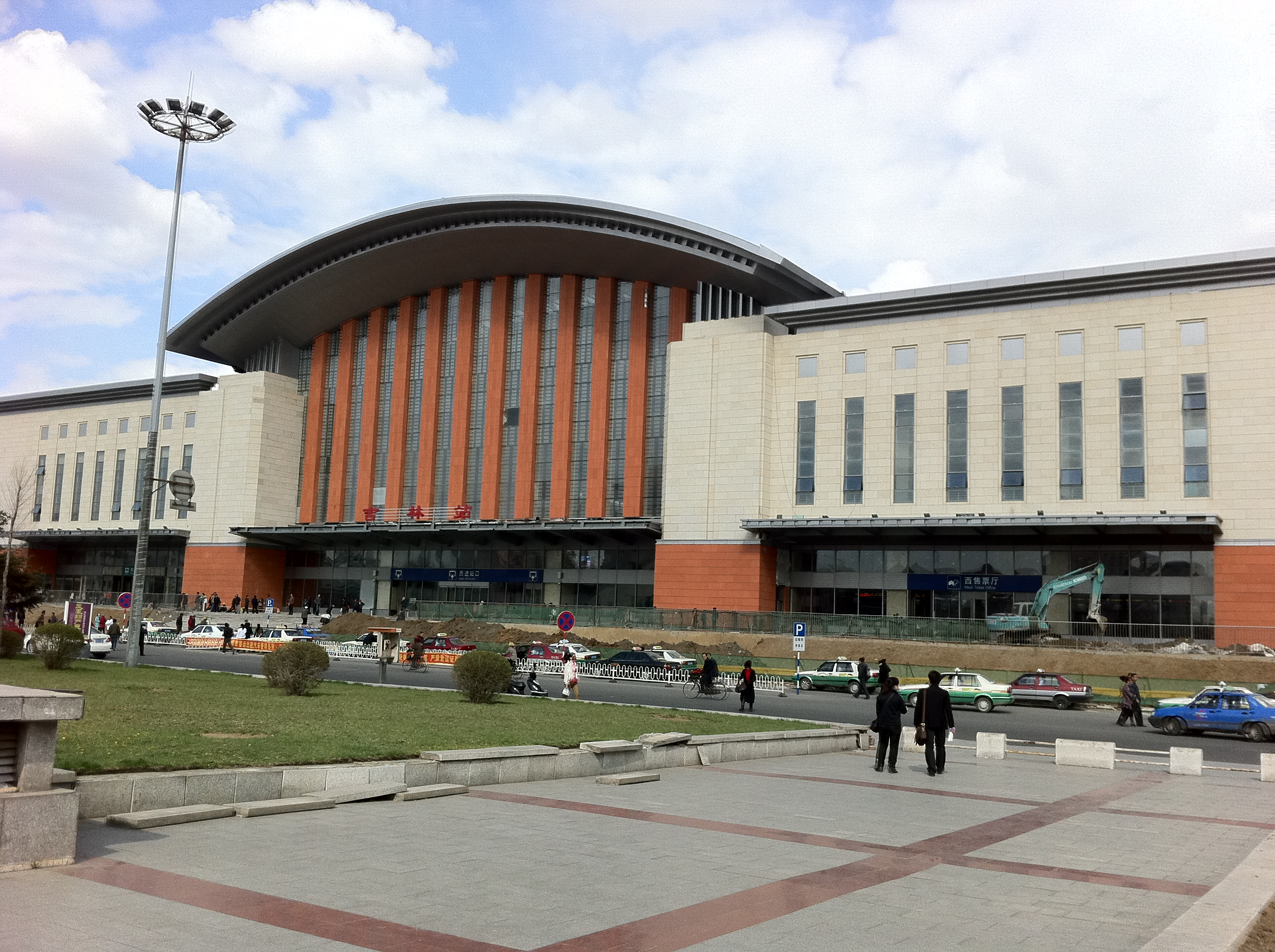 jilin Railway Station 2011